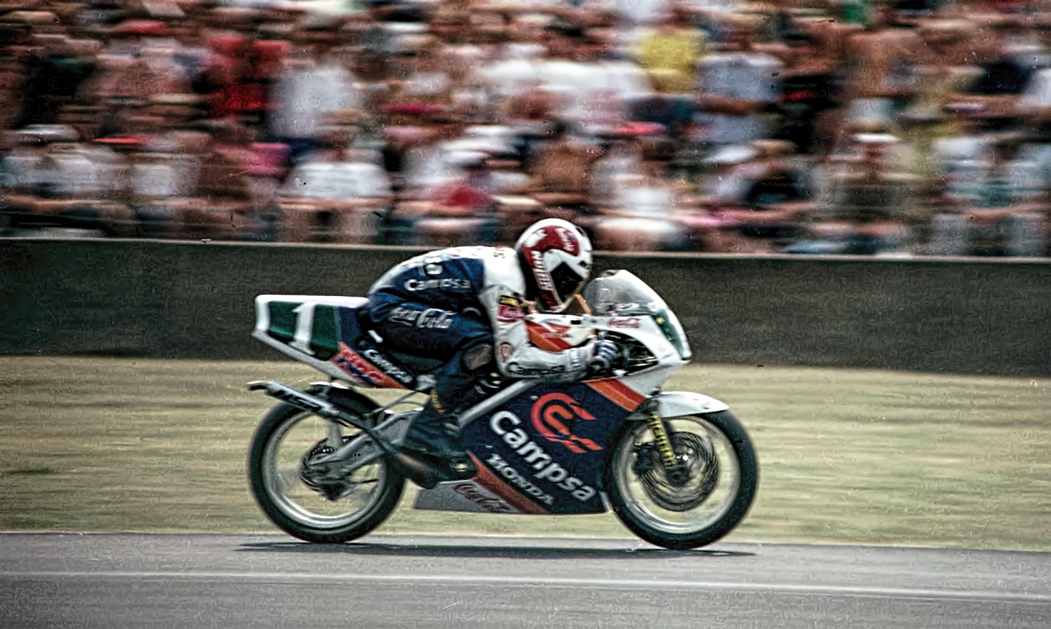 Sito Pons, riding his Campsa Honda at the 1989 British Grand Prix.